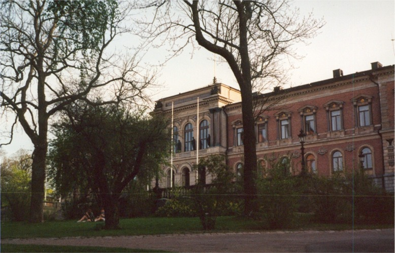 The main building of Uppsala University, Sweden, completed in 1887 in neo-renaissance style.